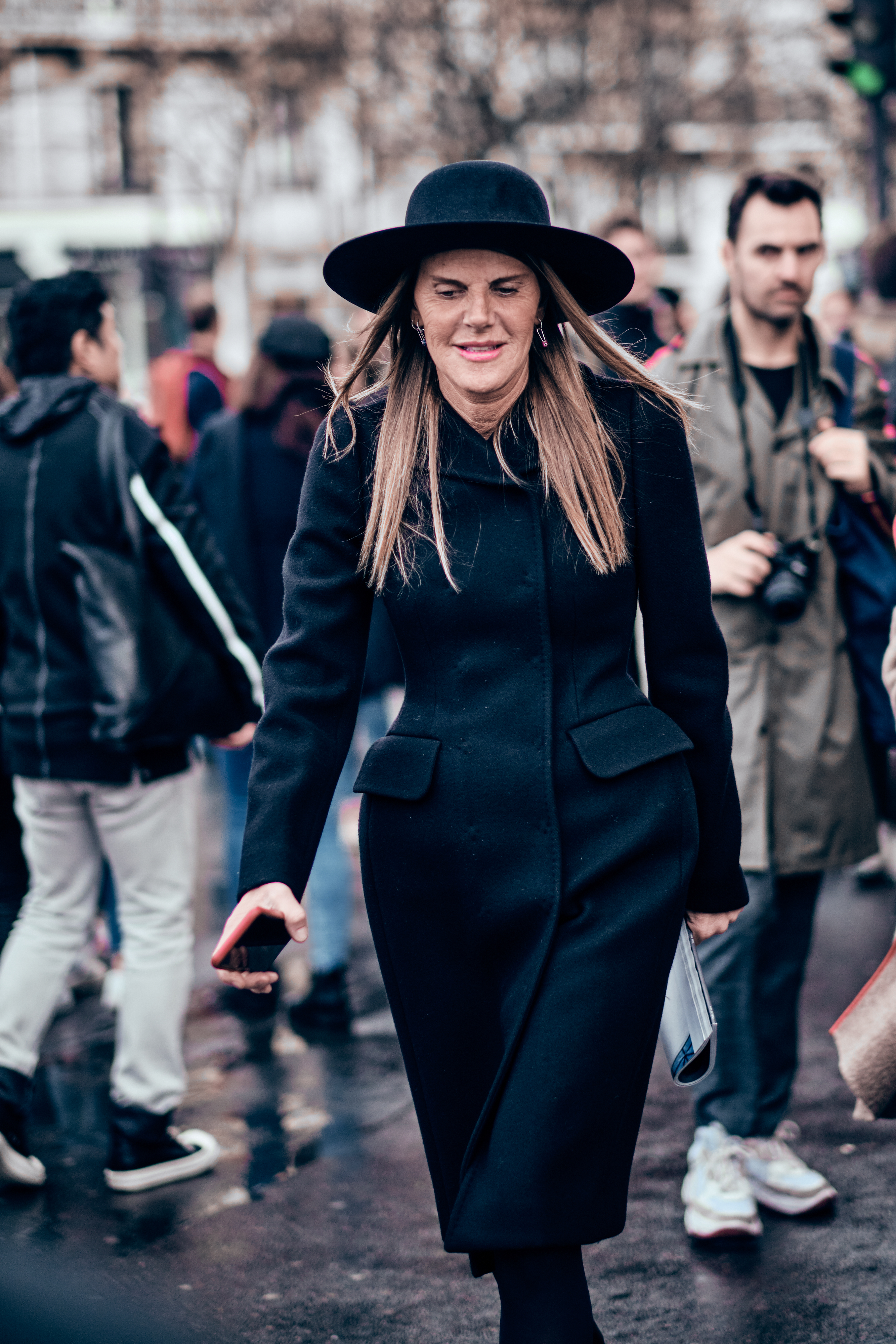 Anna Dello Russo at Paris Fashion Week Autumn/Winter 2019